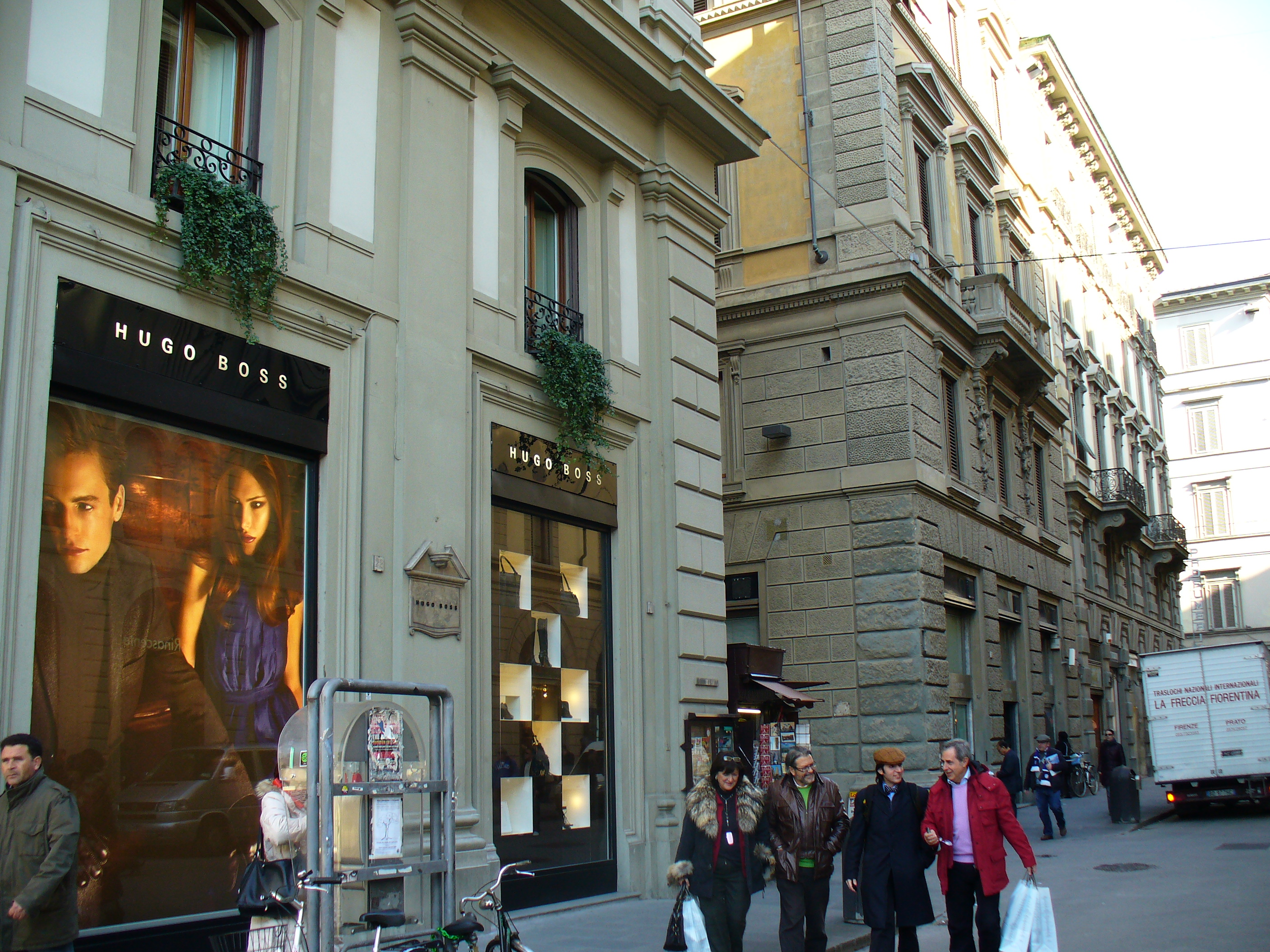 Via degli Speziali